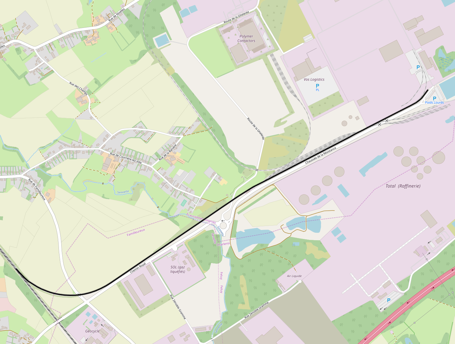 Belgian Railway Line 269, Y Feluy - Feluy Zoning